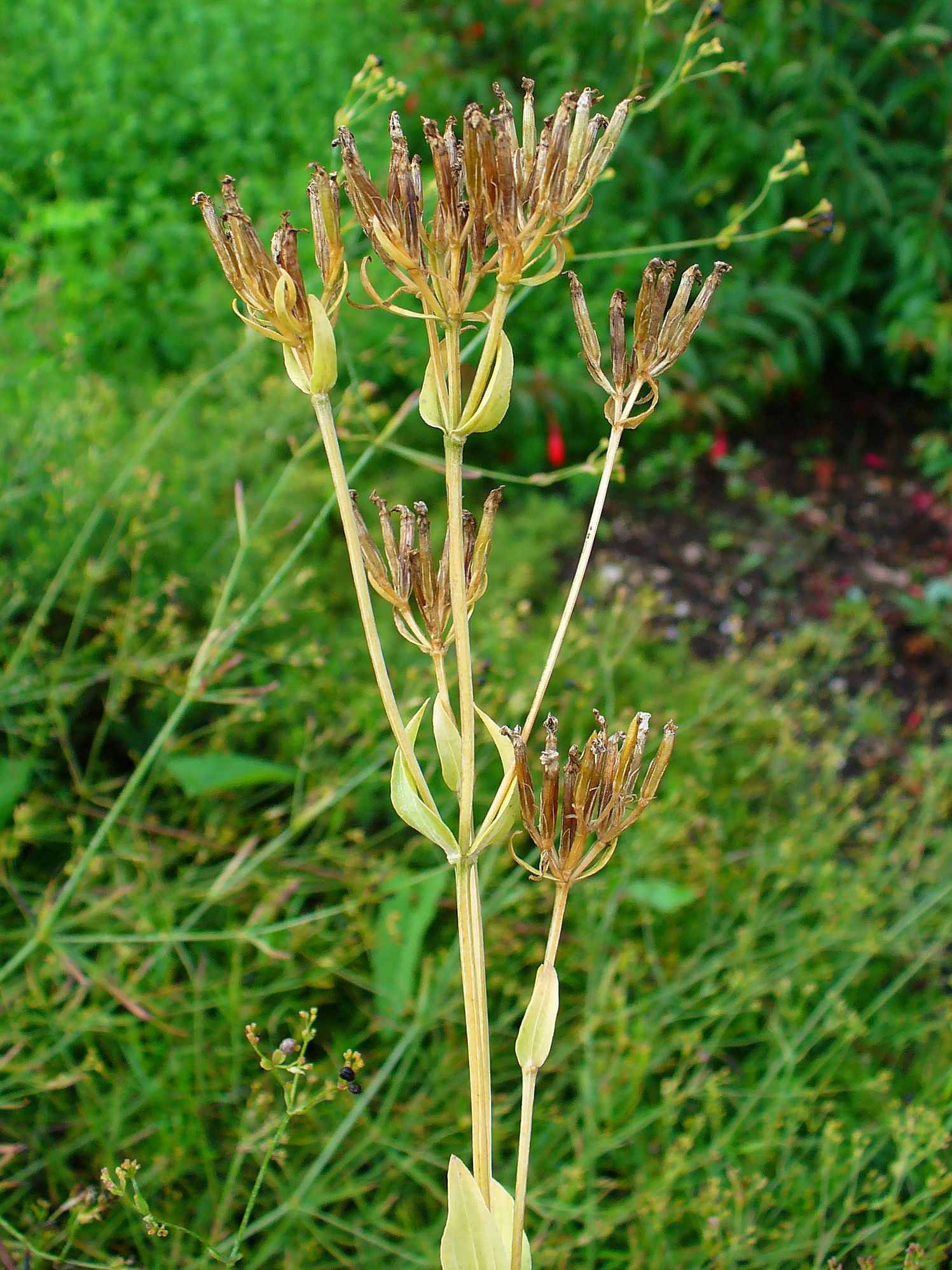 Centaurium erythraea, Gentianaceae, Common Centaury, European centaury, infrutescence. Botanical Garden KIT, Karlsruhe, Germany.